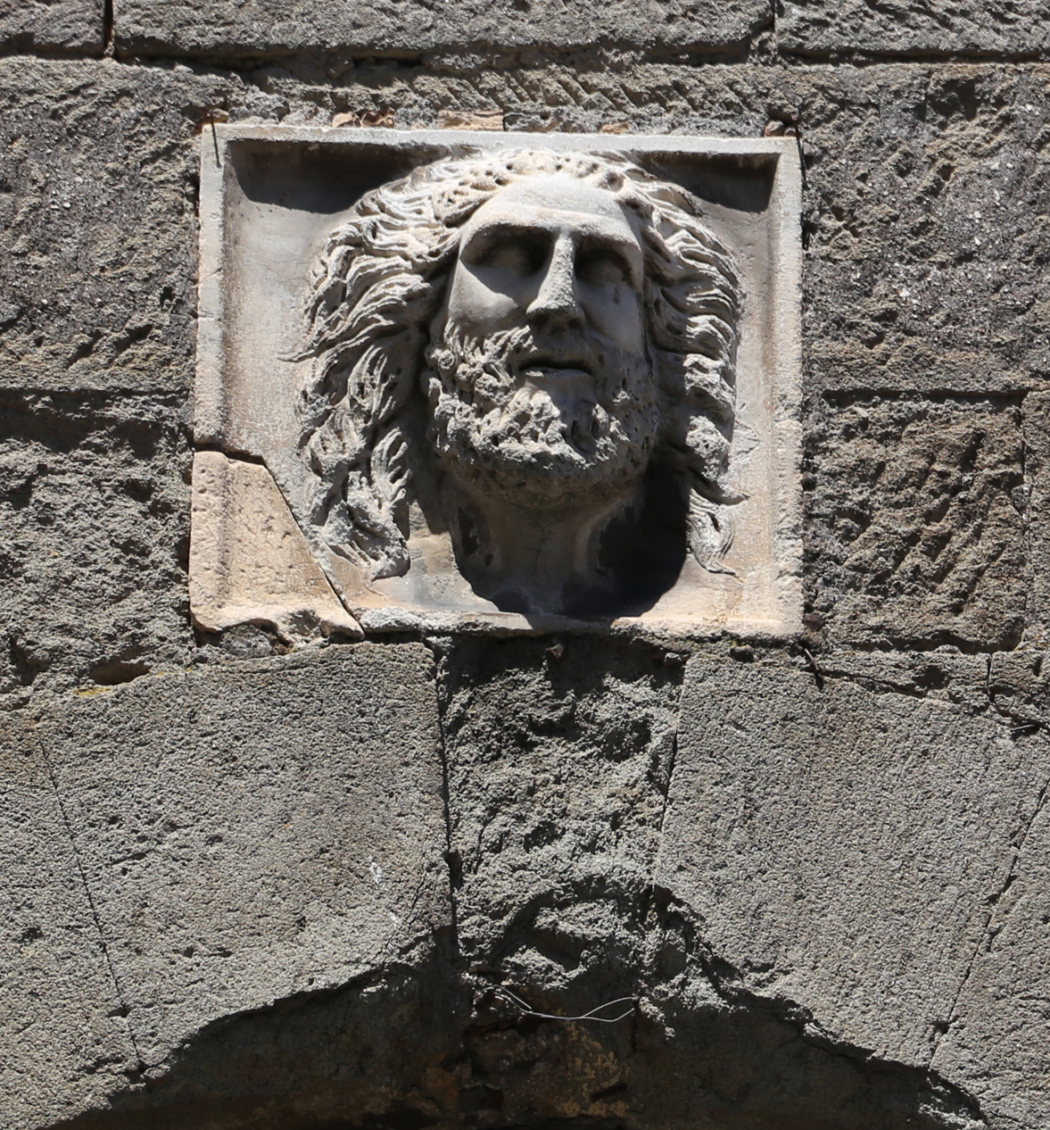 Santa Maria Nuova (Viterbo)